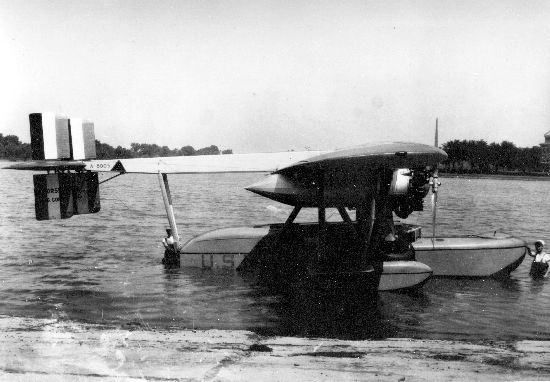 Sikorsky XPS-1 (S-36) amphibian of the United States Navy.